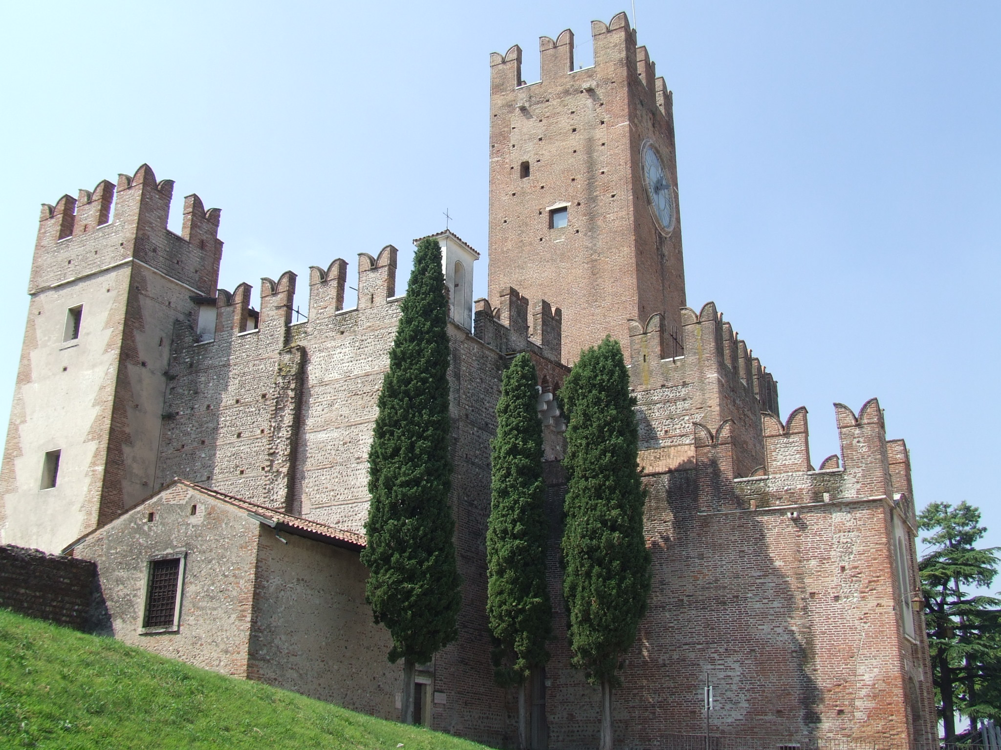 The Villafranca Scaliger Castle. This file was made by M@nrico72.